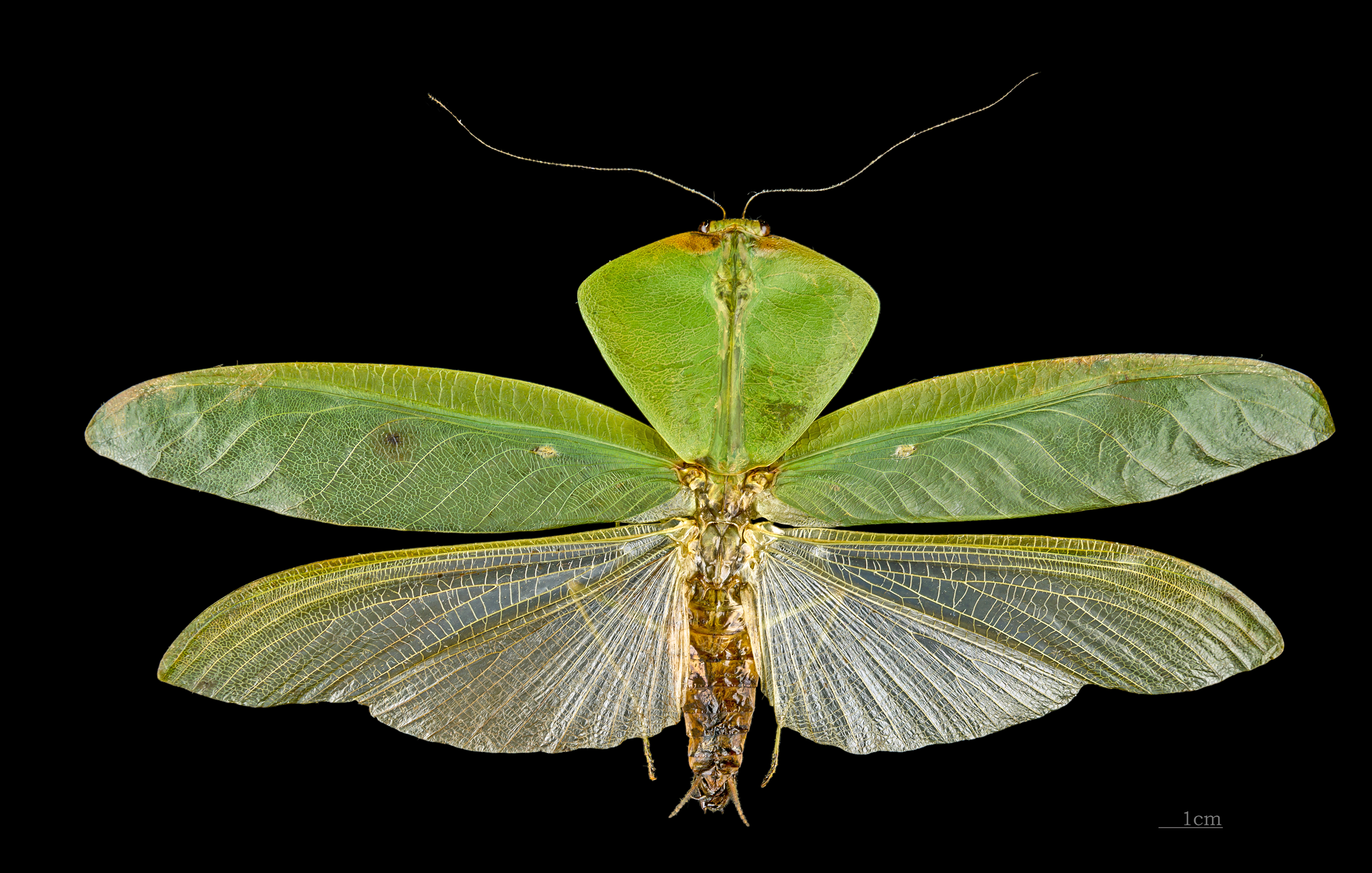 Choeradodis stalii - Dorsal side